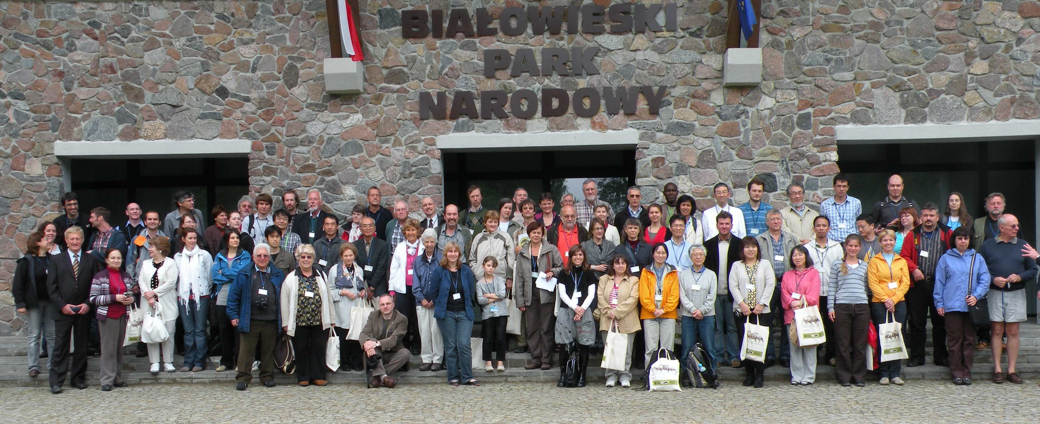 13th International Symposium on Trichoptera, Poland, Bialowieza, 22-27 June 2009